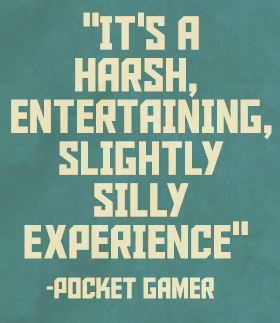 Thisn is one of the ratings for PAKO-Car Case Simulator